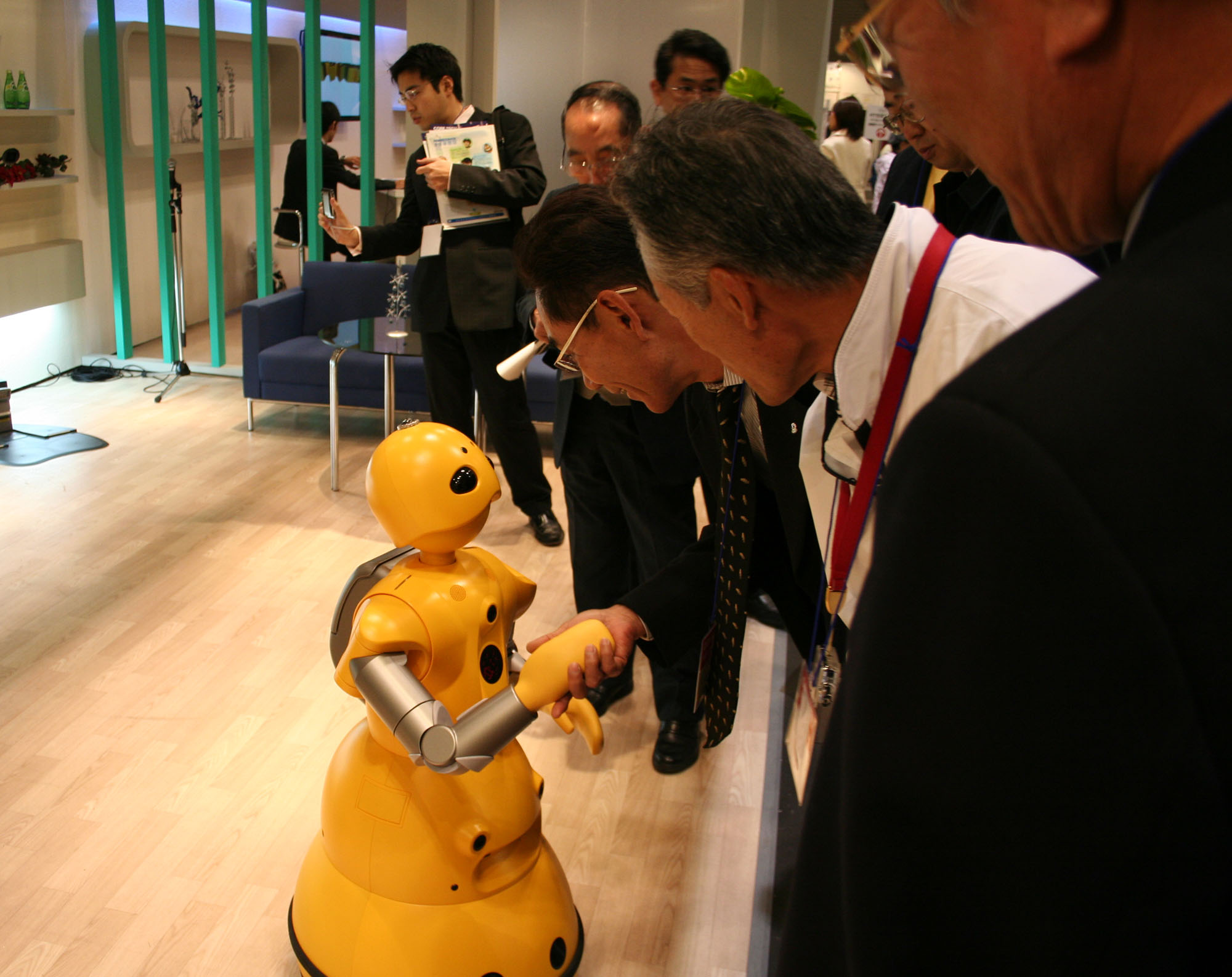 Taken at the Robot Technology Osaka fair